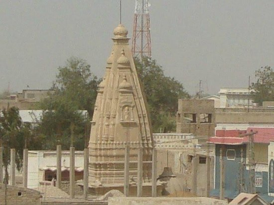 Welcome to the Johi google satellite map! This place is situated in Dadu, Sind, Pakistan, its geographical coordinates are 26° 41' 0" North, 67° 37' 0" East and its original name (with diacritics) is Johi. See Johi photos and images from satellite below, explore the aerial photographs of Johi in Pakistan. Johi hotels map is available on the target page linked above.